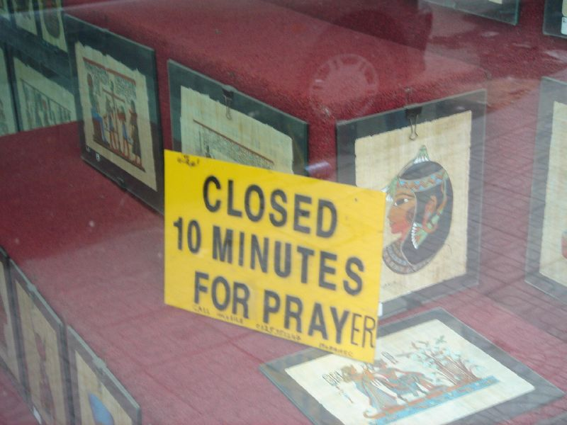 Selling papyrus is important but stopping for prayer is more important